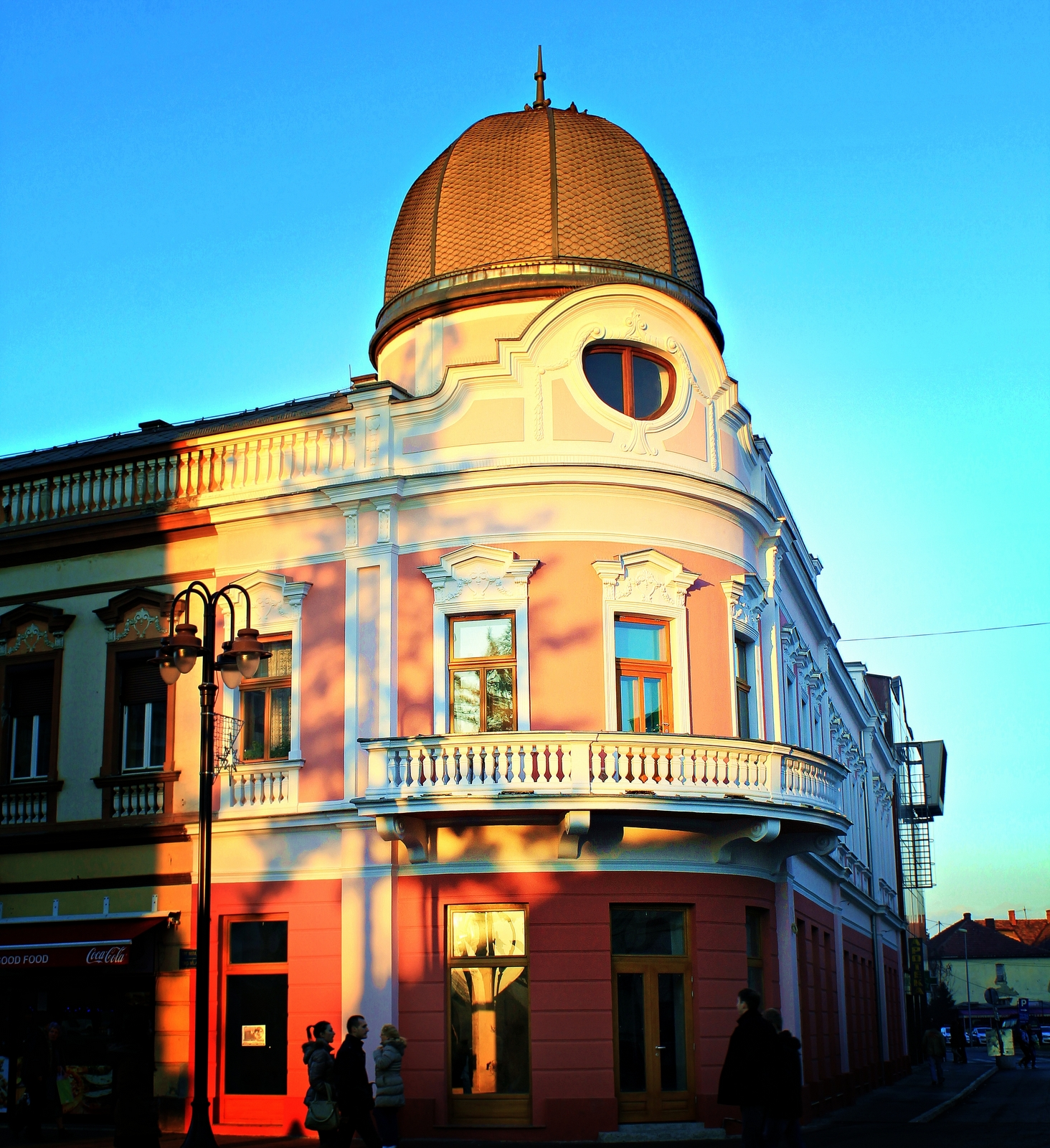 Veselin Maslesa Building